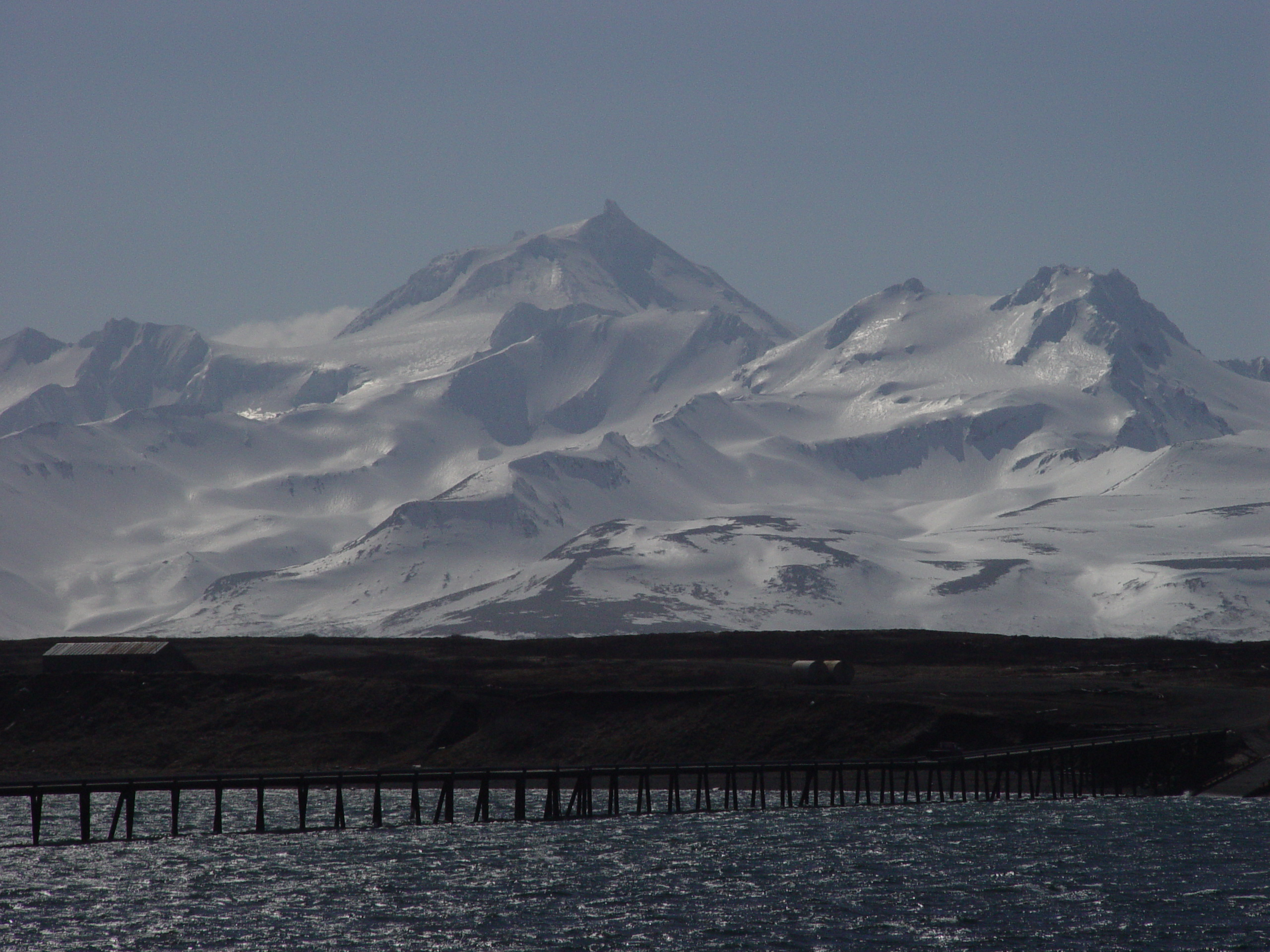 Mount Frosty near Cold Bay on the west end of the Alaska Peninsula. The Cold Bay dock and a portion of the town of Cold Bay is visible in the picture. Photography by Dr. Michael Livingston April 16, 2004.